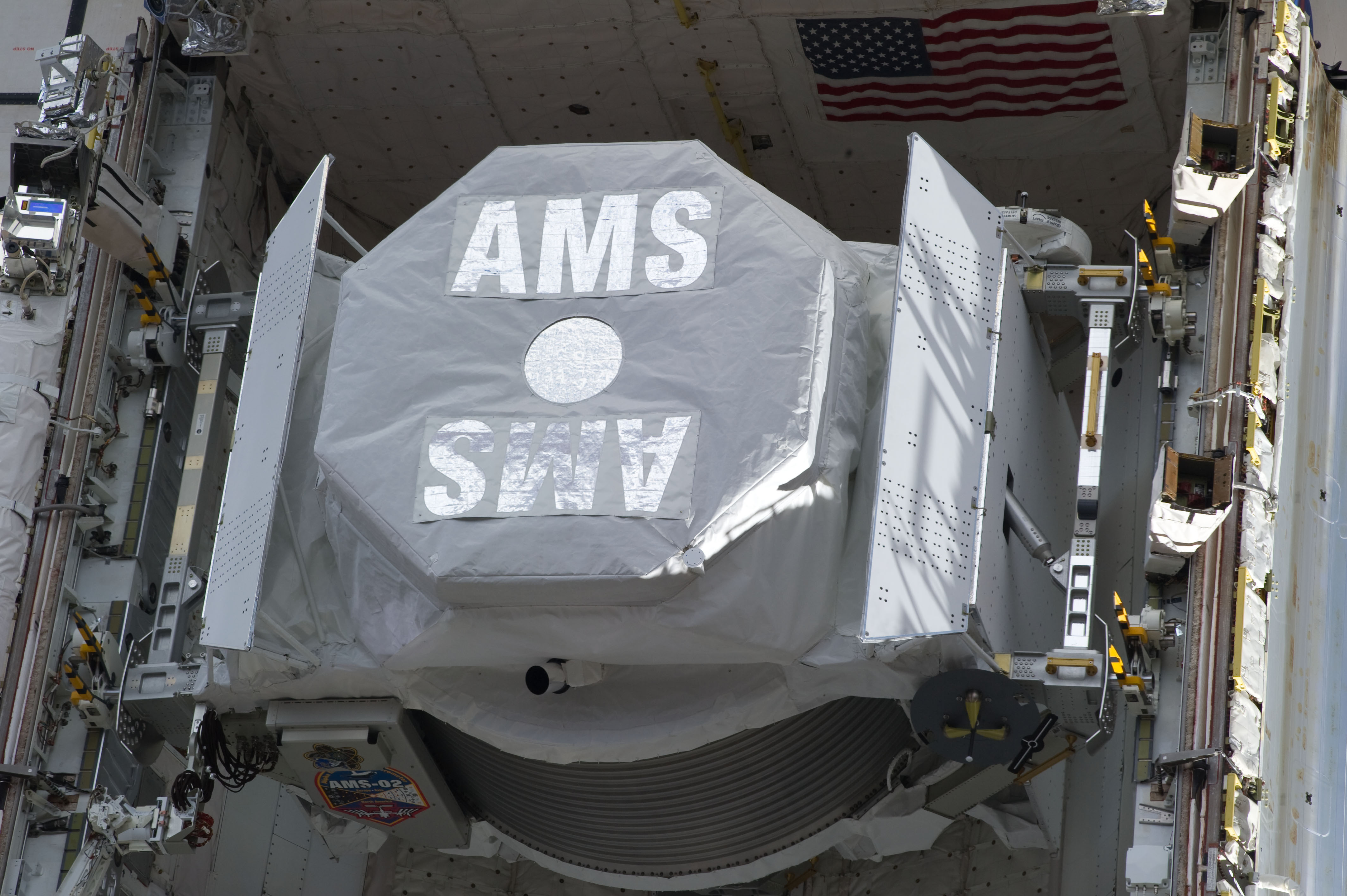 The Alpha Magnetic Spectrometer-2 (AMS) in the space shuttle Endeavour's payload bay is featured in this image photographed by an STS-134 crew member while docked with the International Space Station. Shortly after this image was taken, the AMS was moved from the payload bay to the station's starboard truss.